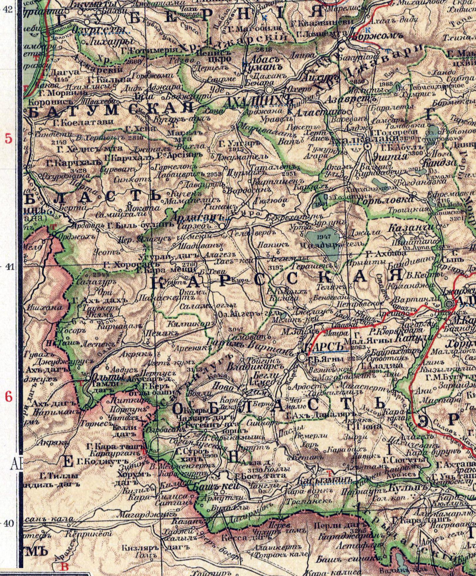 Map of Kars Oblast (Russian Empire)